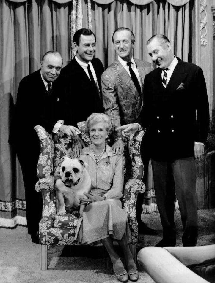 Cast photo of the television program The Rogues. Seated with the bulldog is Gladys Cooper "Auntie Margaret". Standing from left: Charles Boyer "Marcel St. Clair", Gig Young "Tony Flemming", David Niven "Alec Flemming", and Robert Coote "Timmy St. Clair".